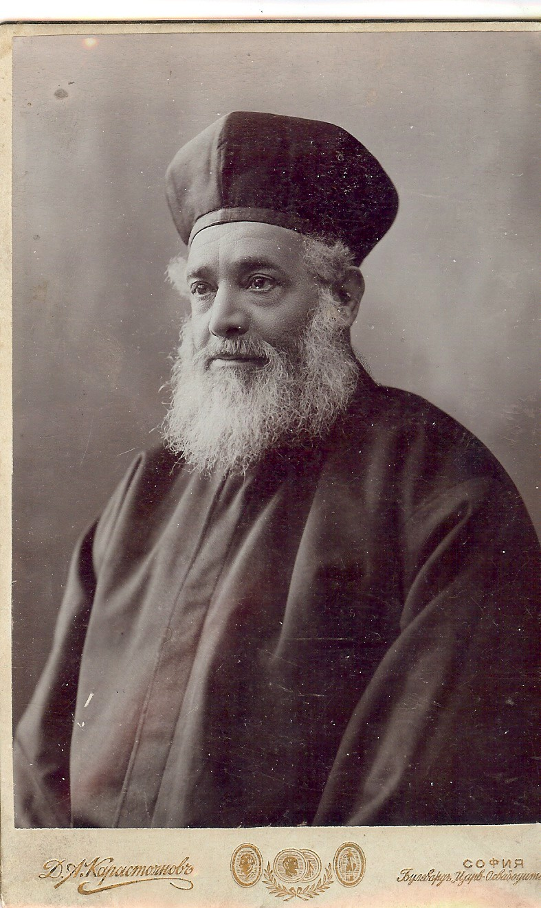 David Pipano by Dimitar Karastoyanov